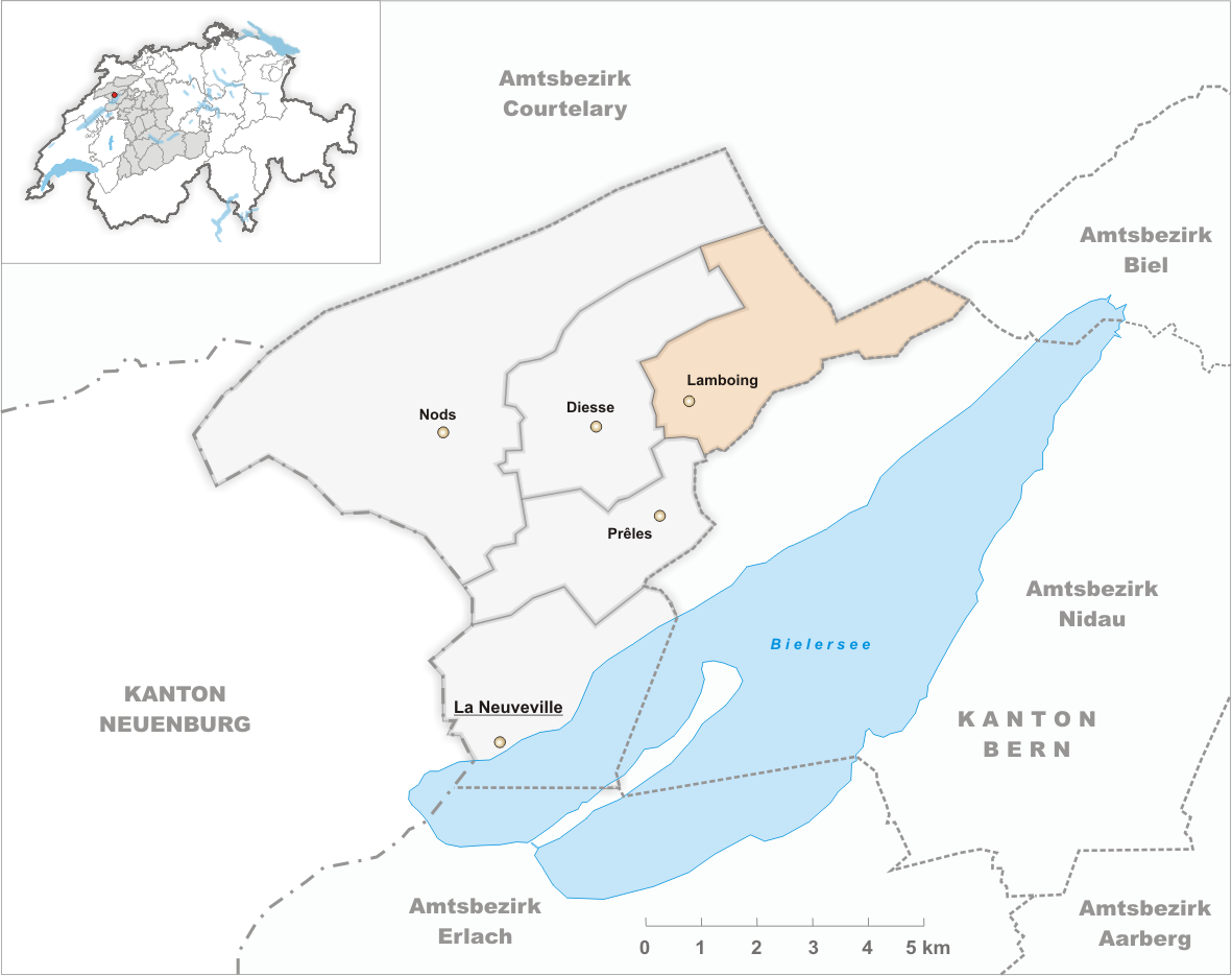 Municipality Lamboing